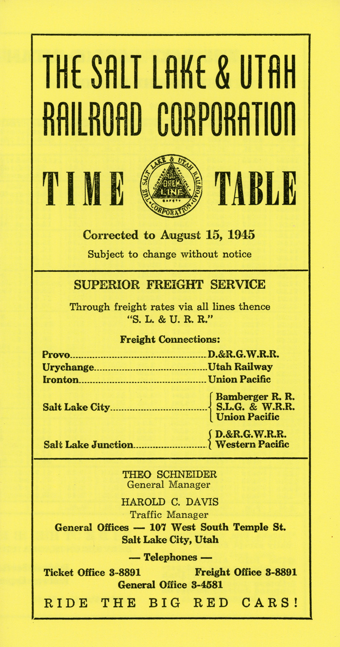 Front cover of the Salt Lake and Utah Railroad's timetable number 45. Published in 1945, one year before the railroad was closed.